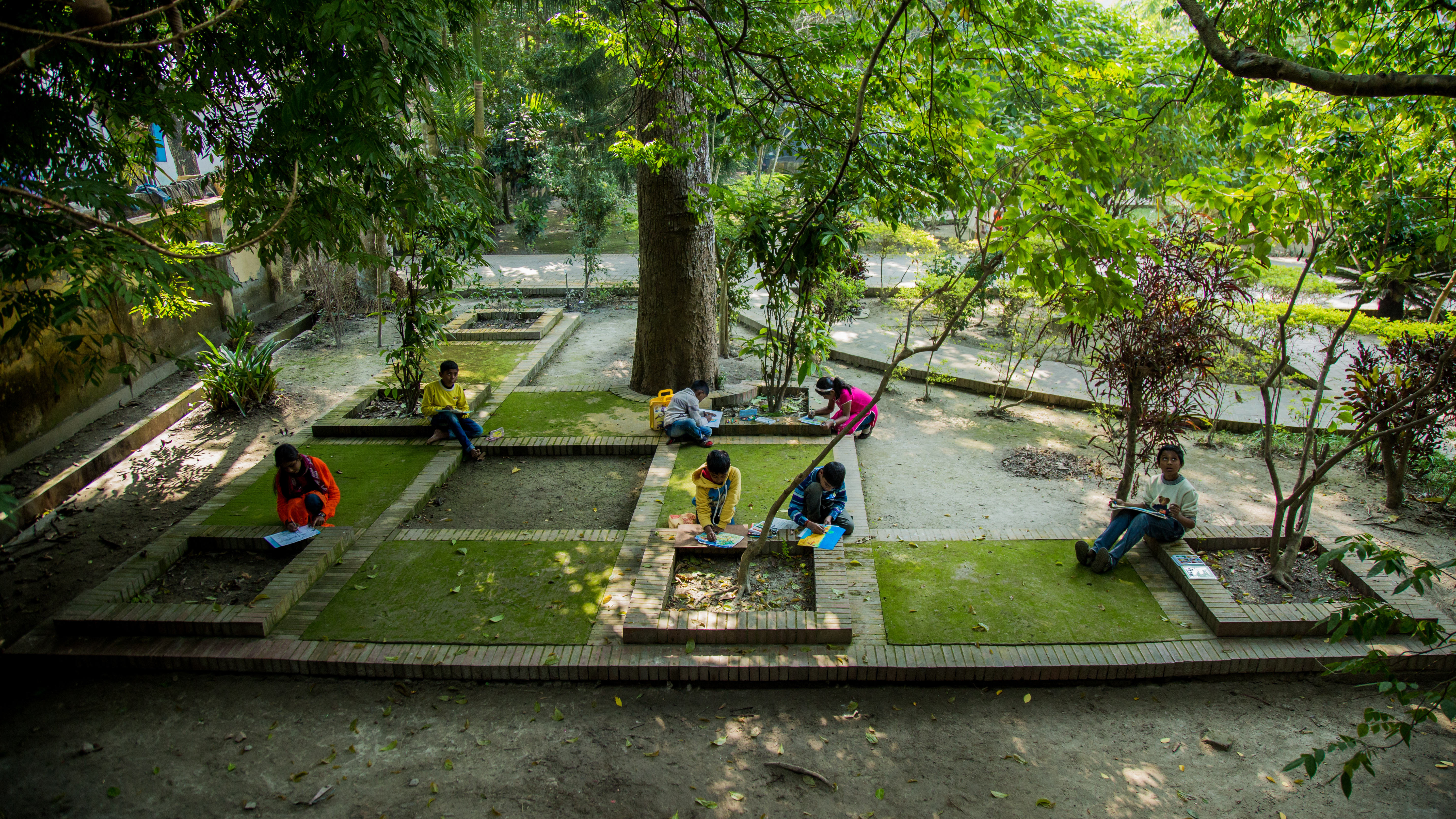 Kids are learning painting in the academy of S. M. Sultan